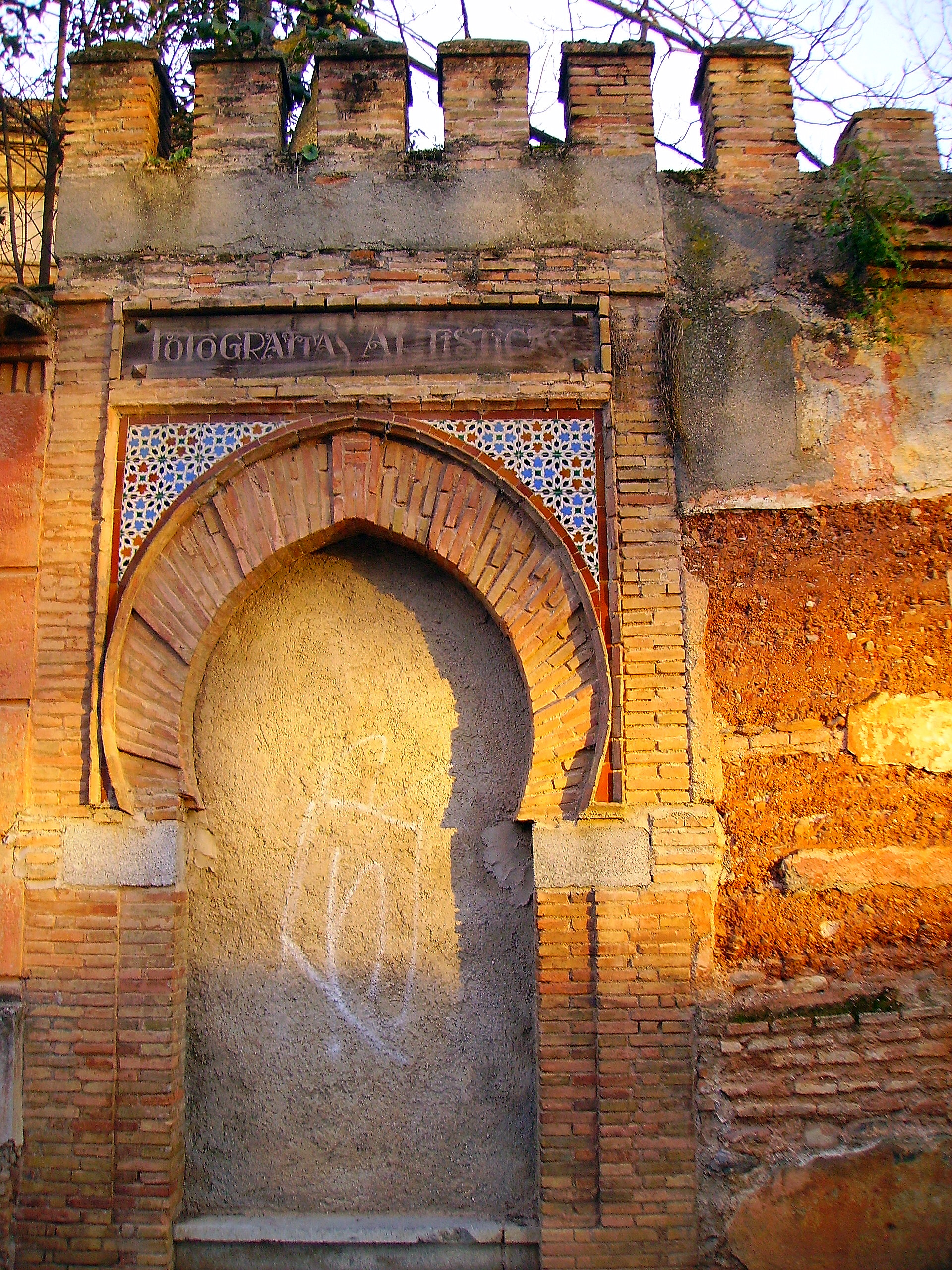 Ancient photo lab in Granada in between the Alhambra and the Carmen de Los Martires